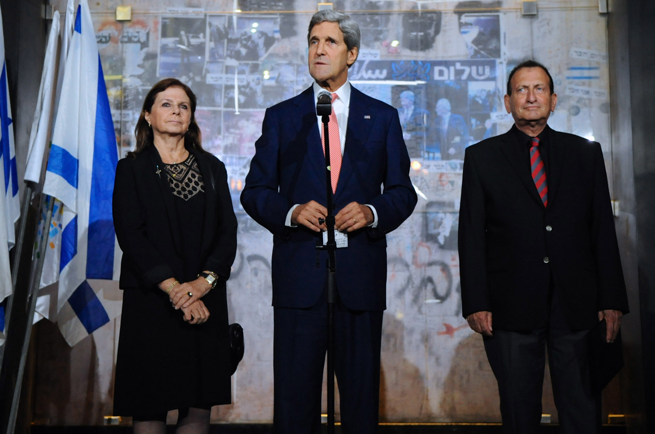 U.S. Secretary of State John Kerry, flanked by Yitzhak Rabin's daughter Dalia and Tel Aviv Mayor Ron Huldai, speaks after laying a wreath at the site where the former Israeli Prime Minister was assassinated in 1995, during a stop in Tel Aviv, Israel, on November 5, 2013. [State Department photo/ Public Domain]